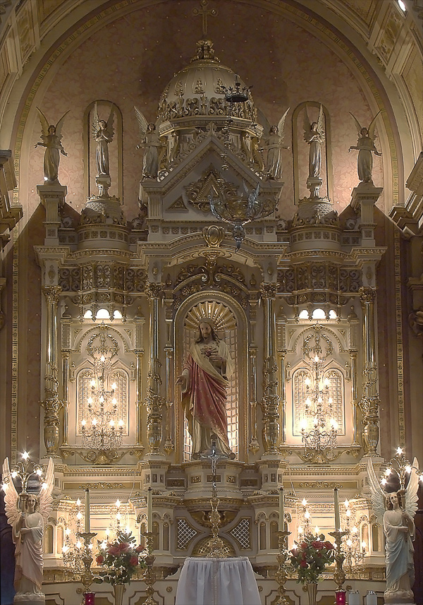 Church of Très-Saint-Nom-de-Jésus, Montreal, Quebec, Canada. The main altar.